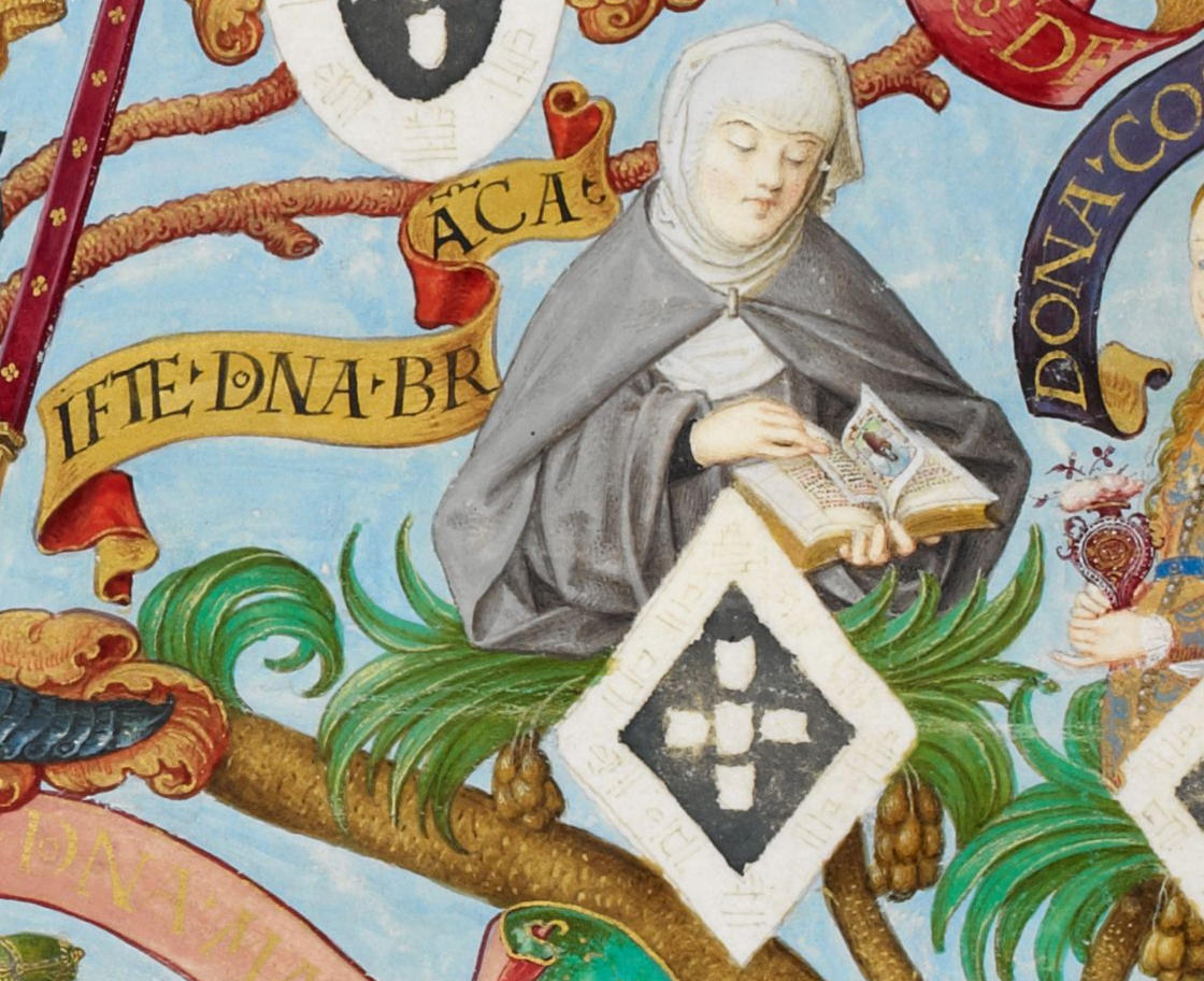 D. Blanche (1259-1321), Infanta of Portugal, daughter of King Alfonso III, in a 16th-century miniature.